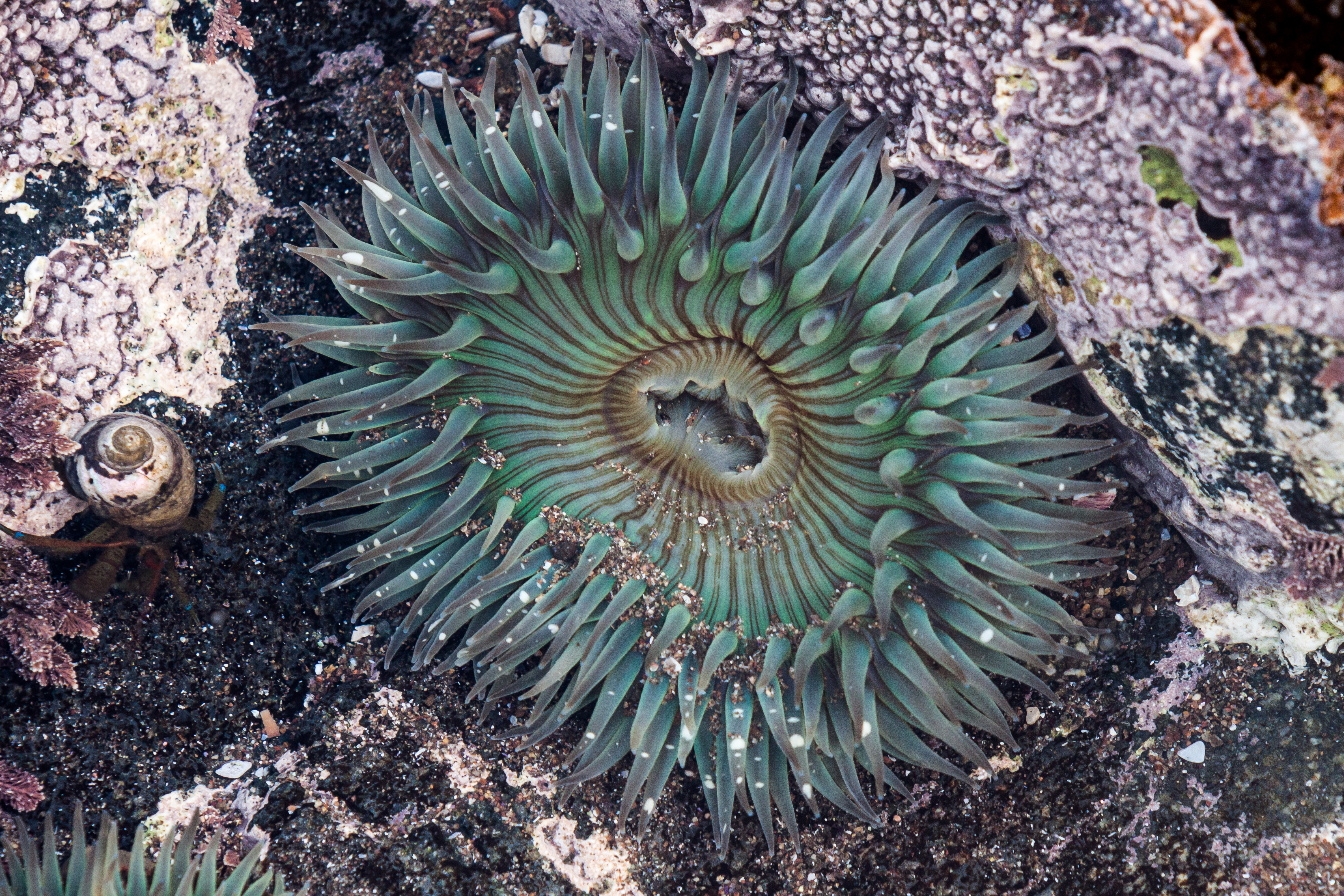 Sea anemone in Baja California, Mexico